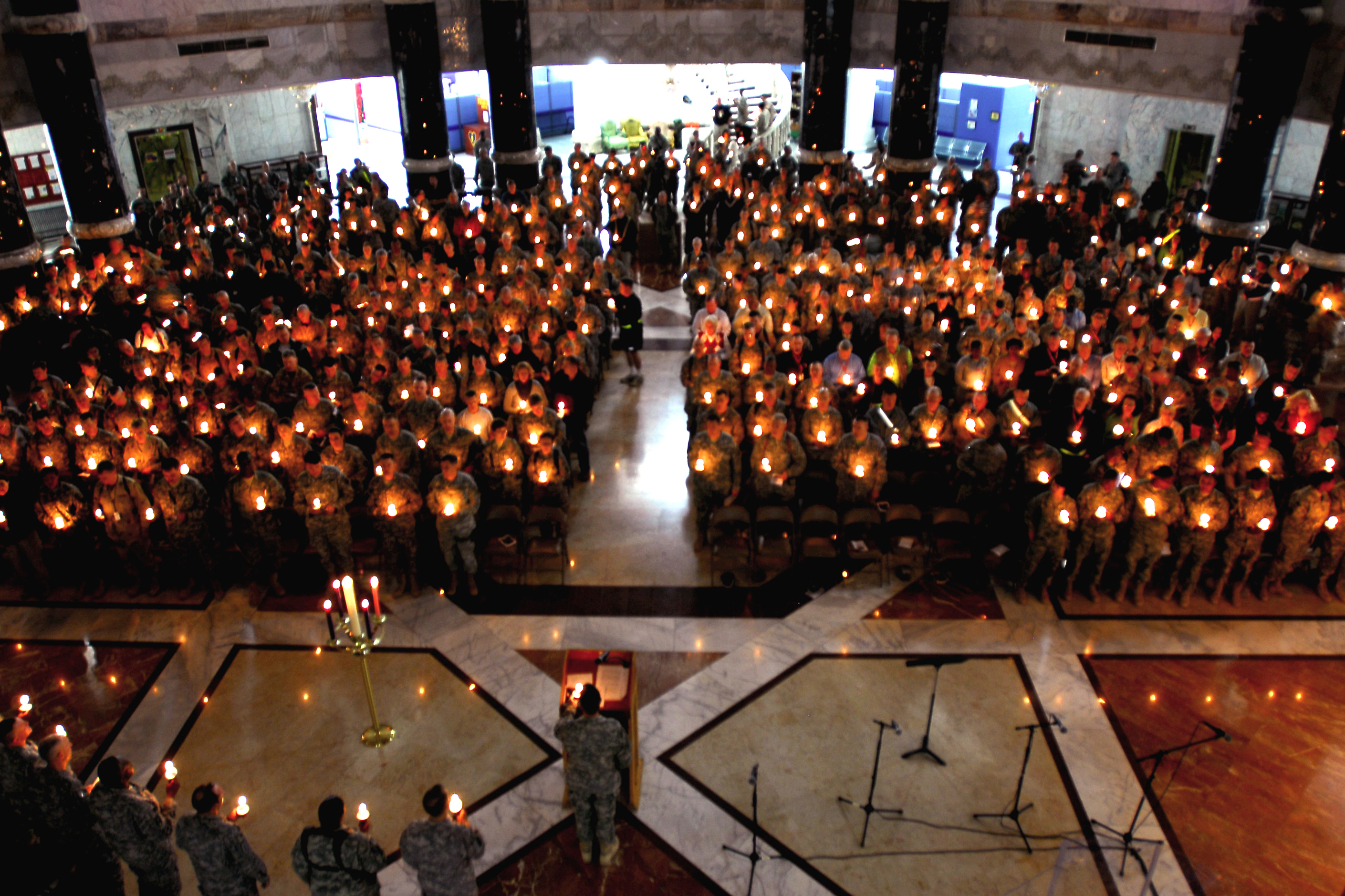 Servicemembers at Victory Base Complex, Iraq, attend the Christmas Eve Candlelight Service at Al Faw Palace, Baghdad, Iraq, Dec. 24, 2008. U.S. Army photo by Spc. Eric J. Glassey